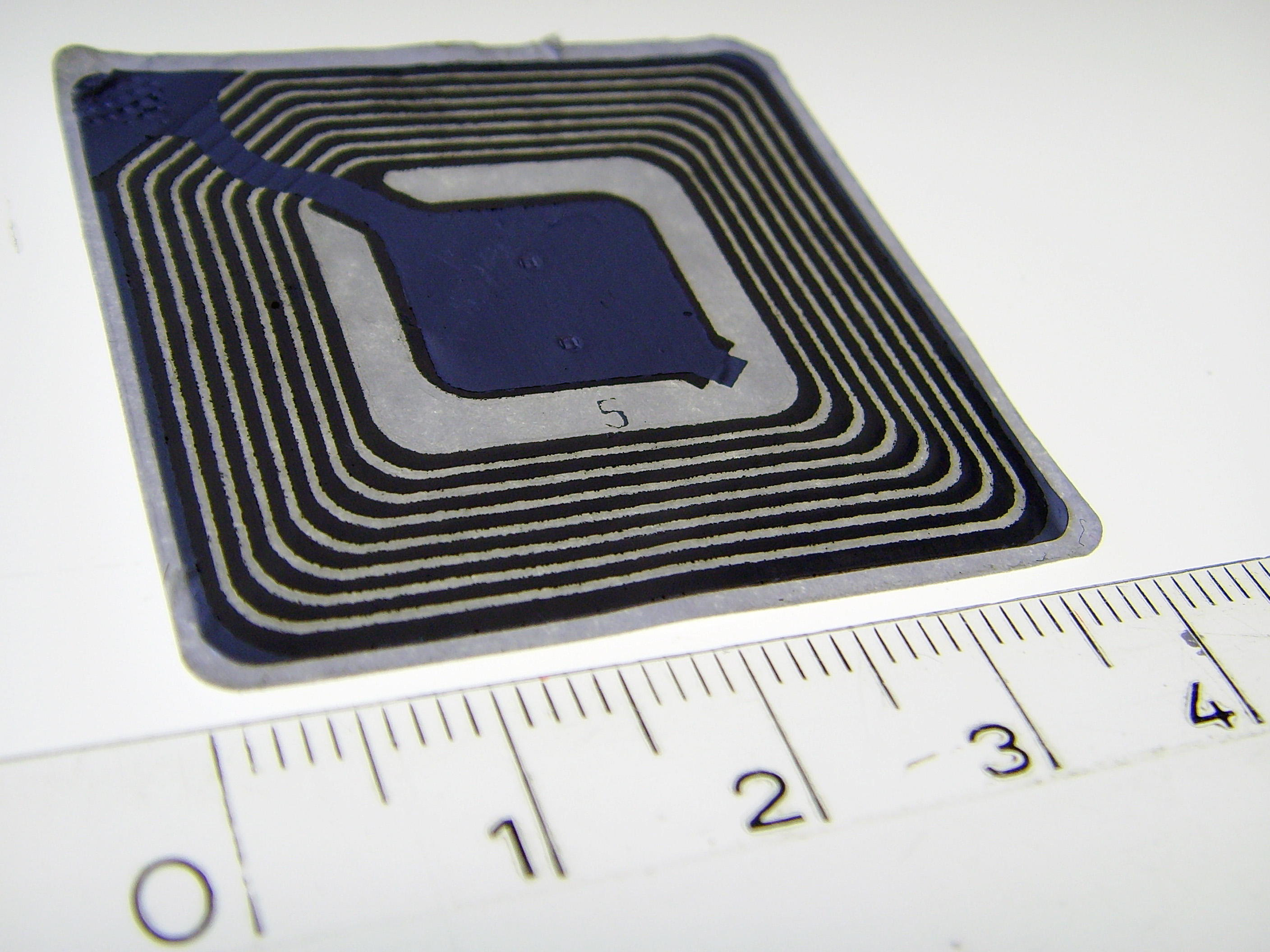 RFID Chip mit Resten eines Barcode Aufkleber, Sicherungsetikett auf einer DVD eines Elektrogeschäftes : RFID in a form of a sticker with bar code on the opposite side, security chip for a DVD Source: own work Date: March 11, 2008 Author: Maschinenjunge Licence: GFDL, cc-by 3.0